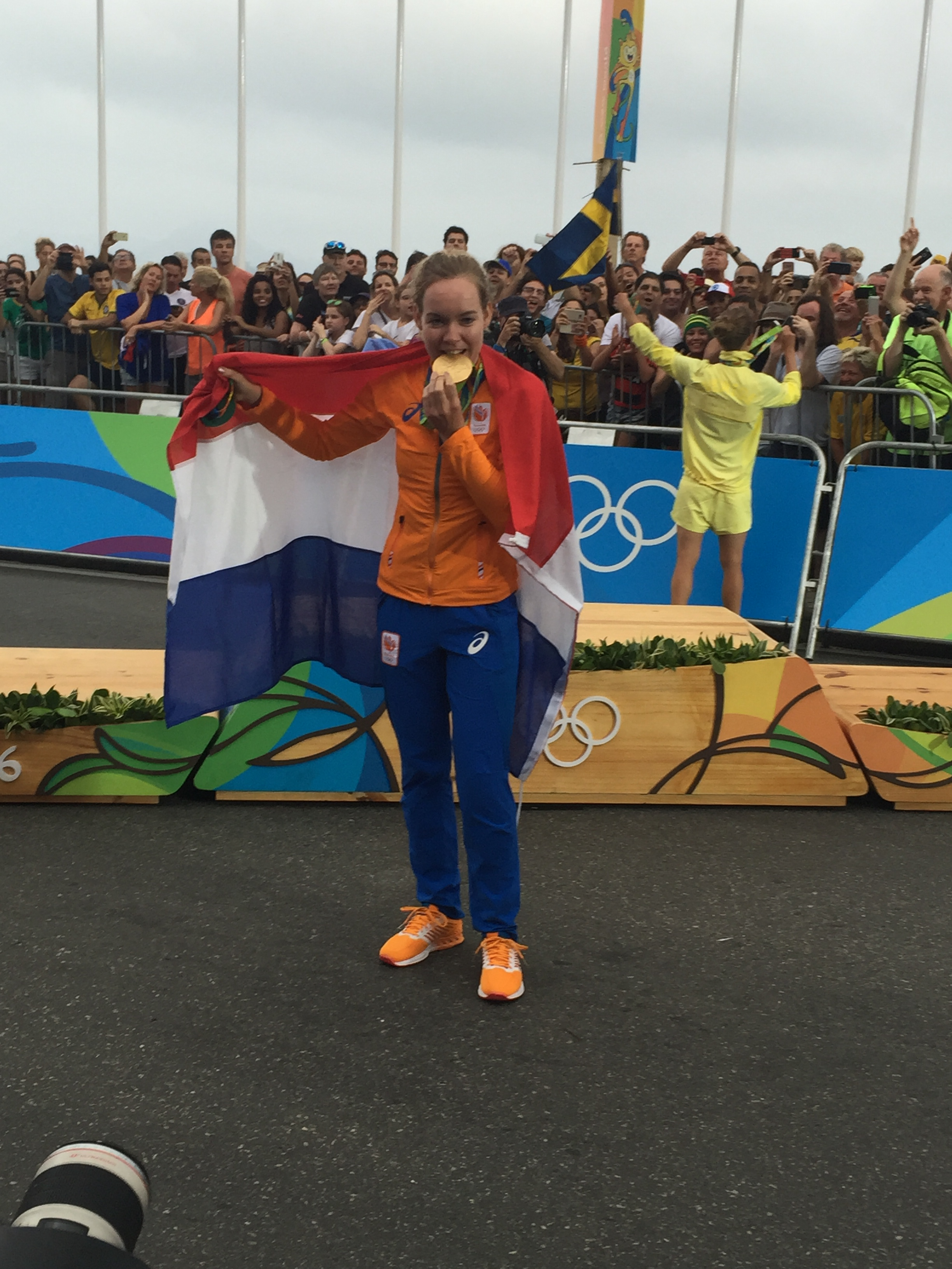 Rio 2016 - Women's road race